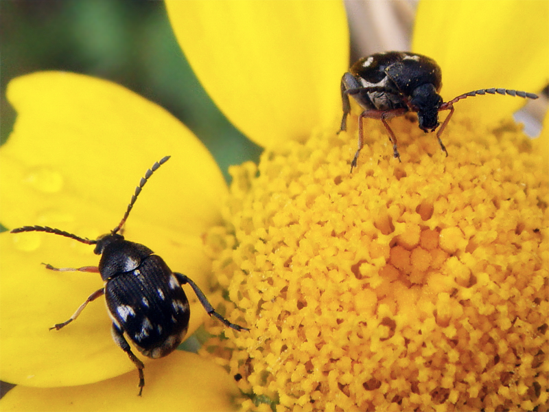 Bruchidius quinqueguttatus, Europe, Portugal, Leiria, Ansião